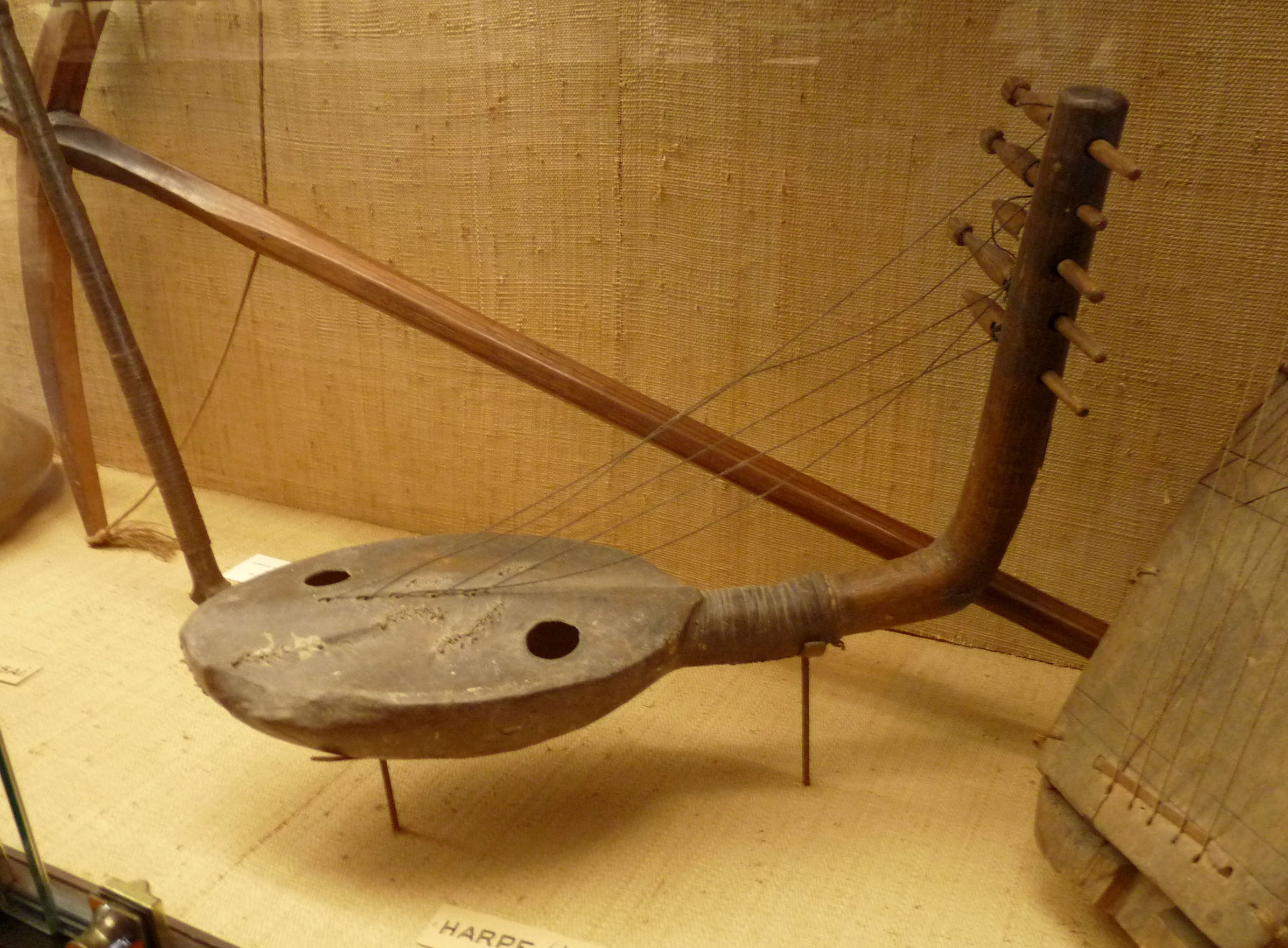 Ituri harp (Musée africain, Ile d'Aix)